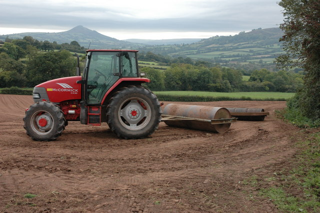 A McCormick tractor and two rolls parked up in the corner of a field near New Hunthouse Farm, near to Crossway, Herefordshire, Great Britain. The River Monnow flows through the valley in the background. Ysgyryd Fawr (Skirrid) is the hill on the left and Blorenge can be seen on the distant horizon.